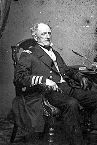 Title: Portrait of Commodore Franklin Buchanan, C.S.N., officer of the Confederate Navy Abstract: Selected Civil War photographs, 1861-1865 (Library of Congress) Physical description: 1 negative